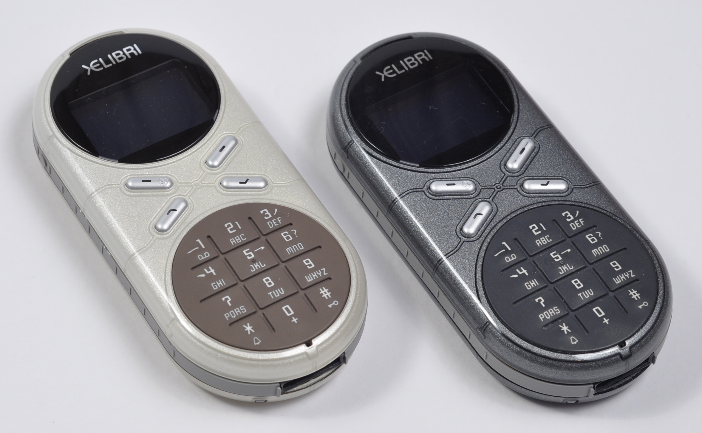 Xelibri 1 Mobile Phone in both available colours